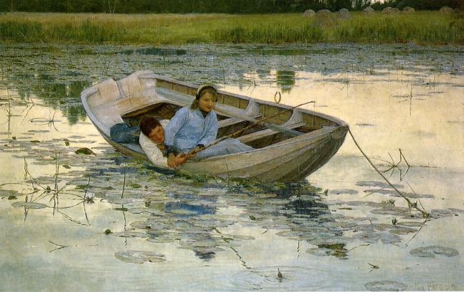 The Amateurs